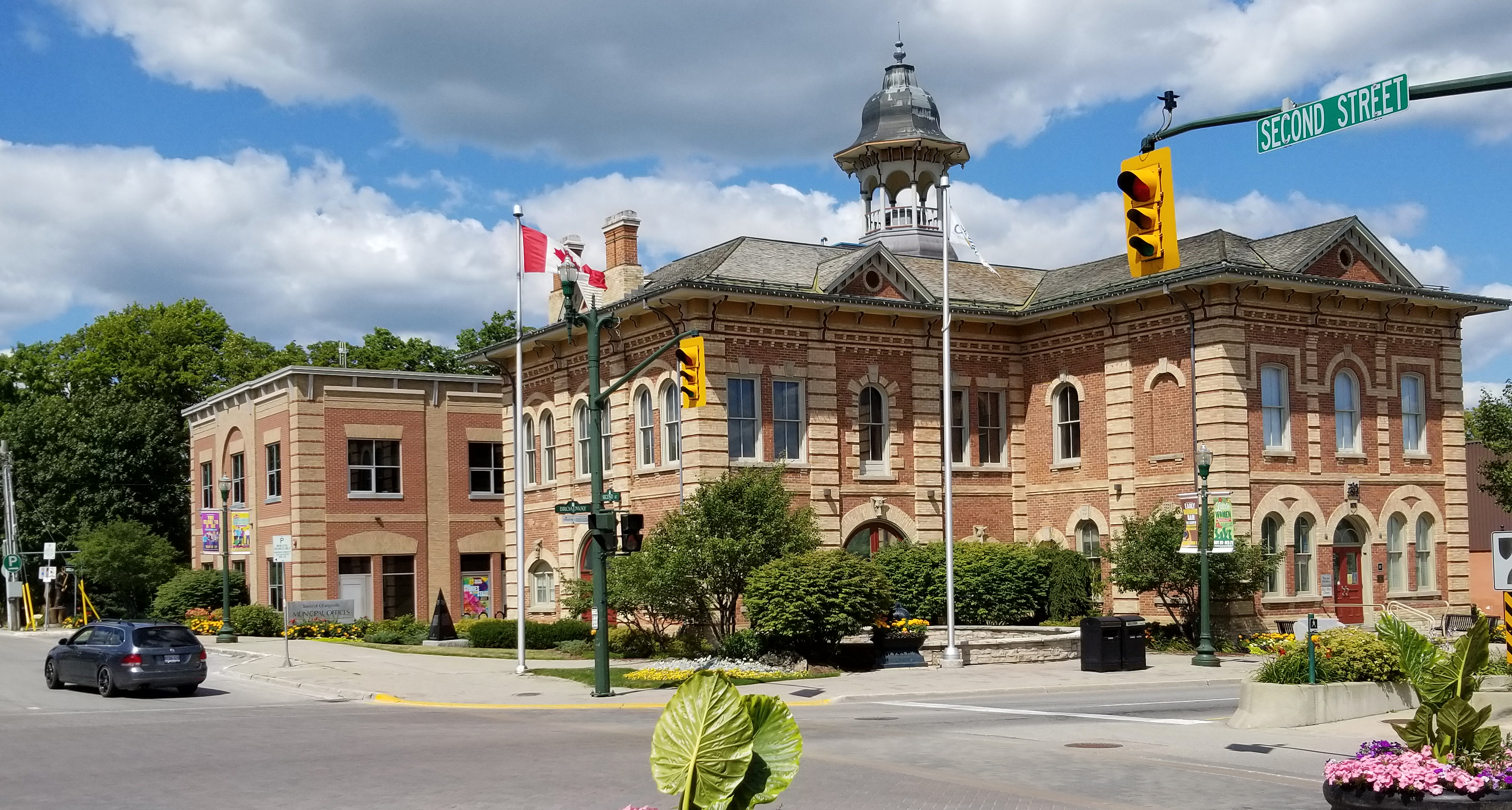 Built c.1871, renovated in 1993-1994; also contains and Opera Hall used by the Theatre Orangeville company